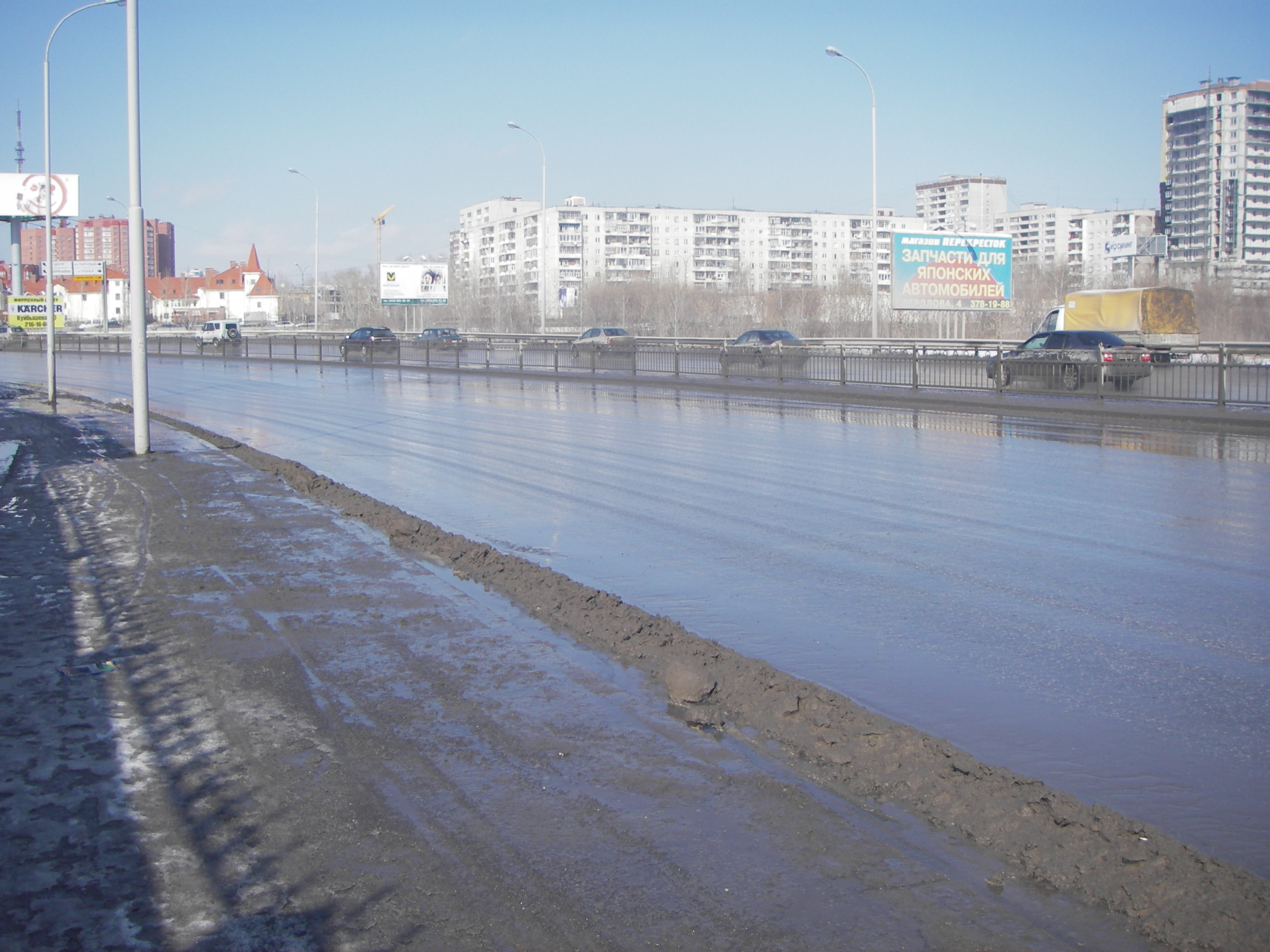 Mashinnaya Street of Yekaterinburg in spring